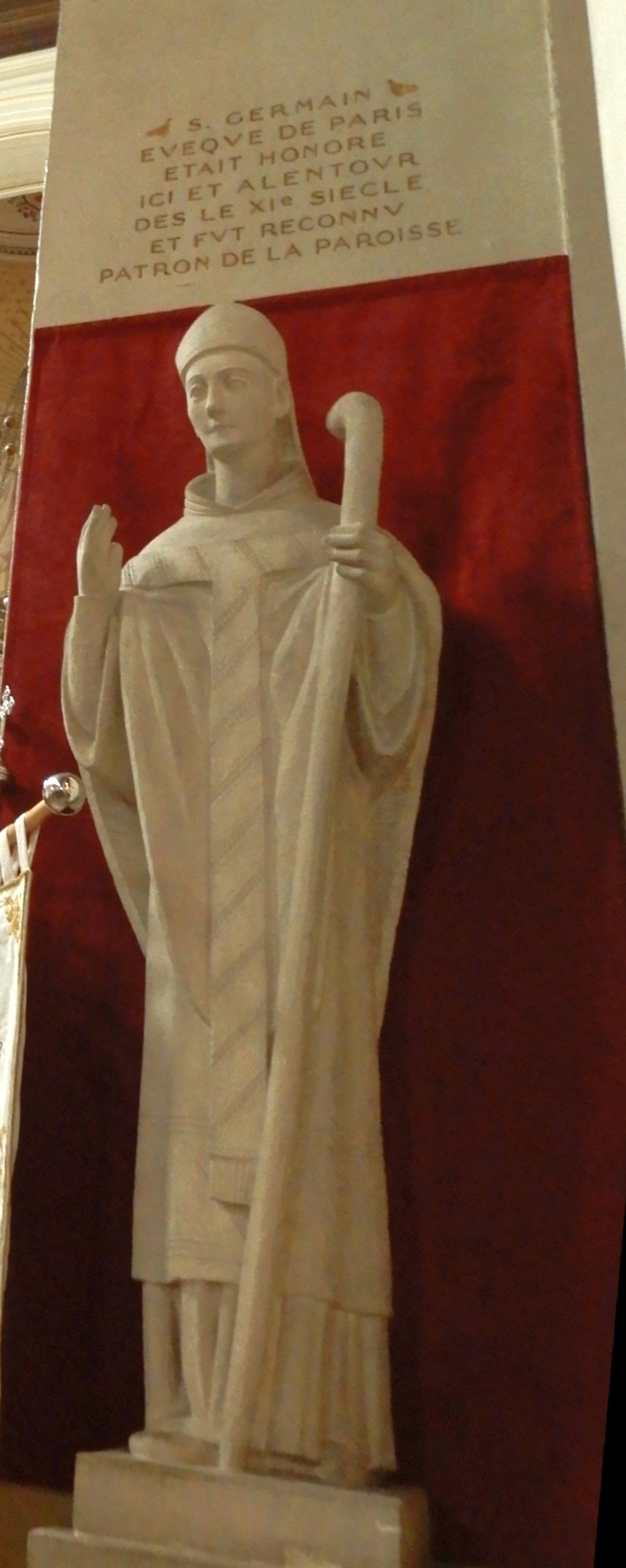 Statue of Saint Germain of Paris, church in St. Germain-en Laye, pladter, after 1800